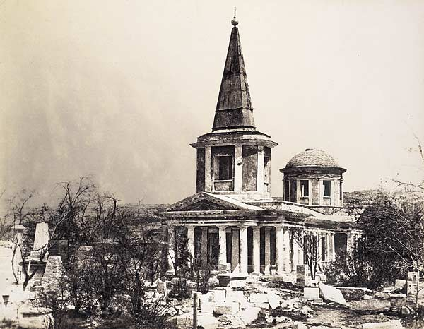 Church of All Saints Sevastopol.1855 year